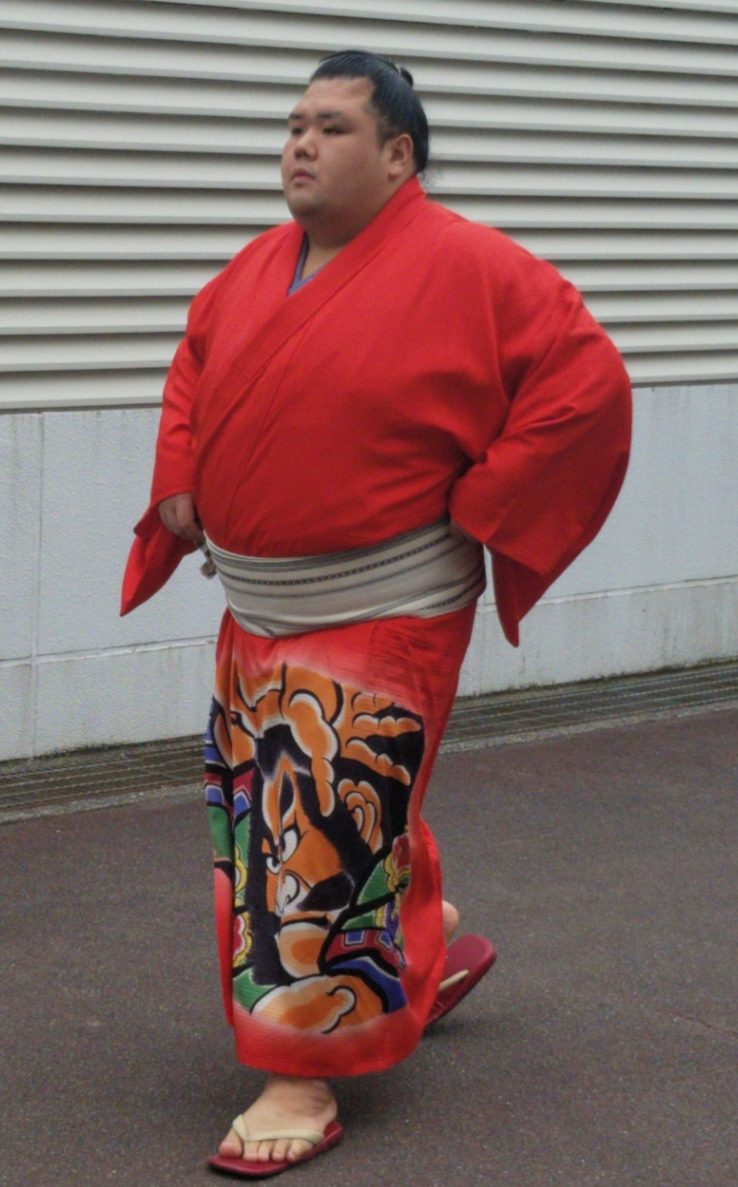 Taken outside venue of September 2019 tournament